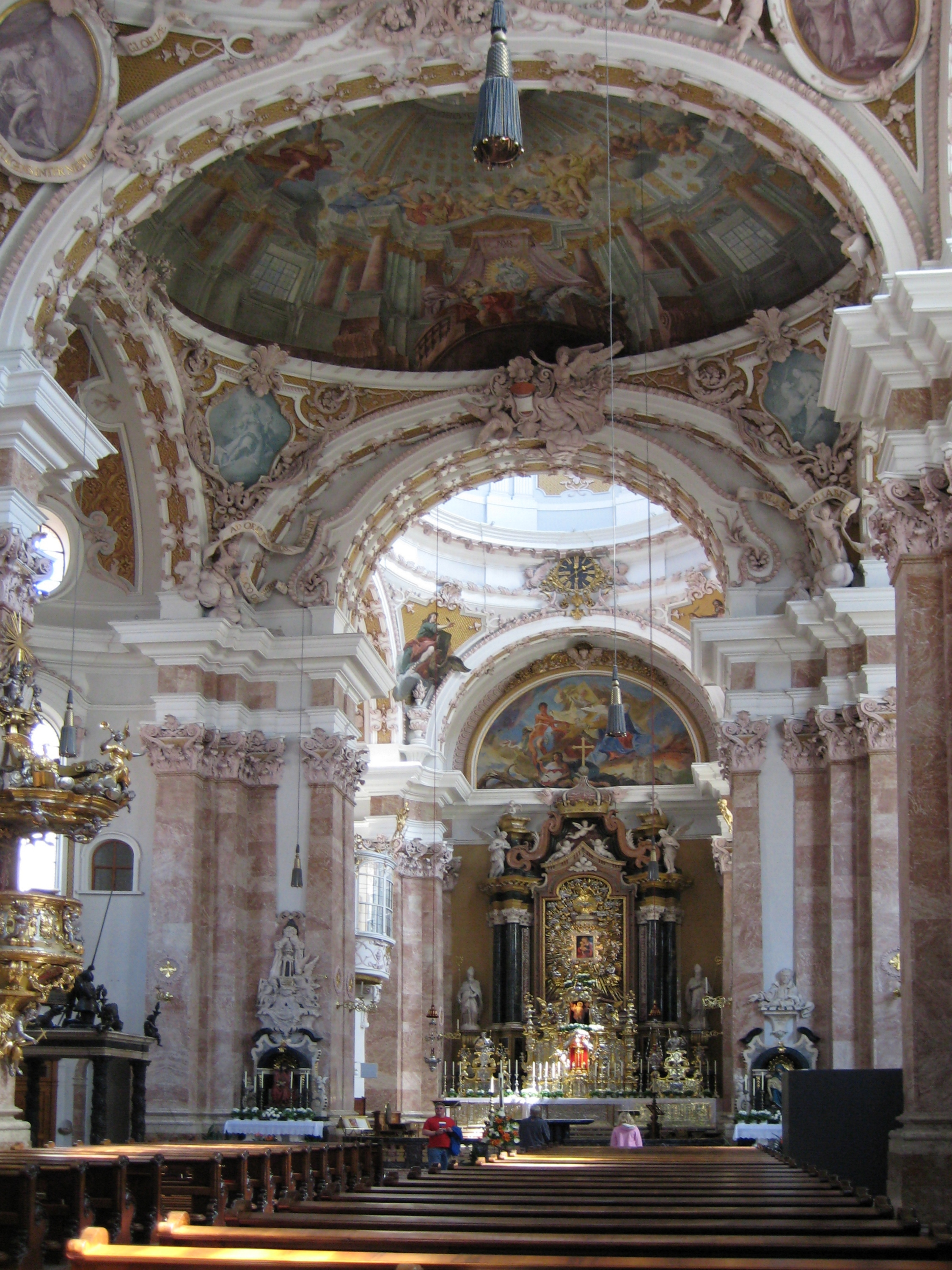 Cathedral St. Jakob in Innsbruck, Tyrol